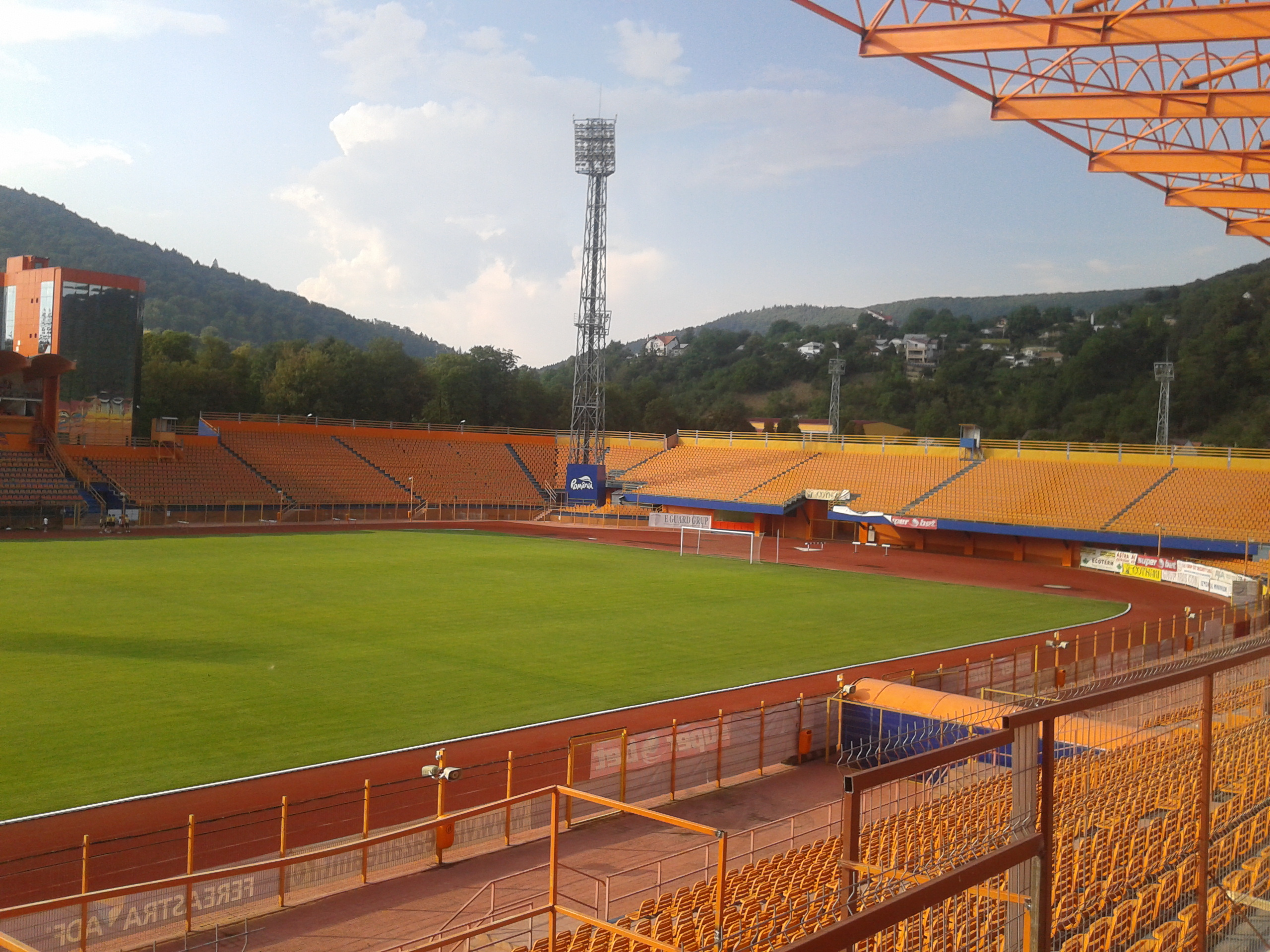 Ceahlăul Stadium - stands